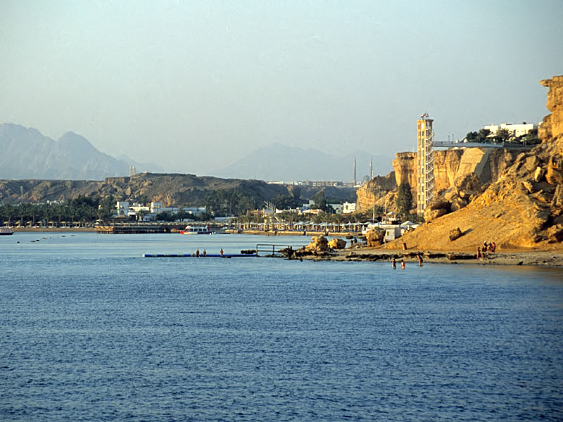 El-Maya Bay, Old Sharm (at back), Hadaba (at right), Sharm el-Sheikh, Egypt